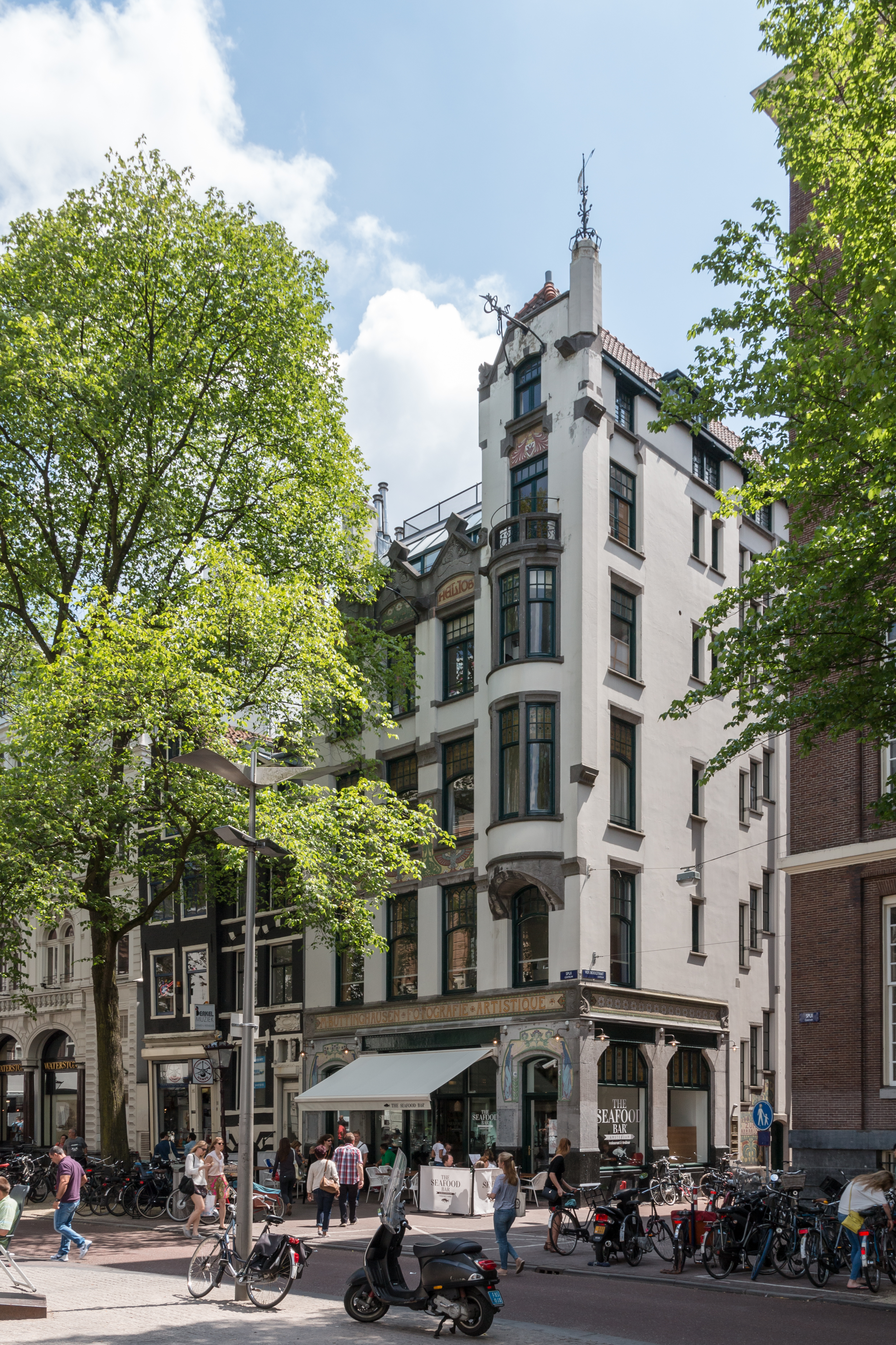 Helios (Spui 15) in Amsterdam, Netherlands